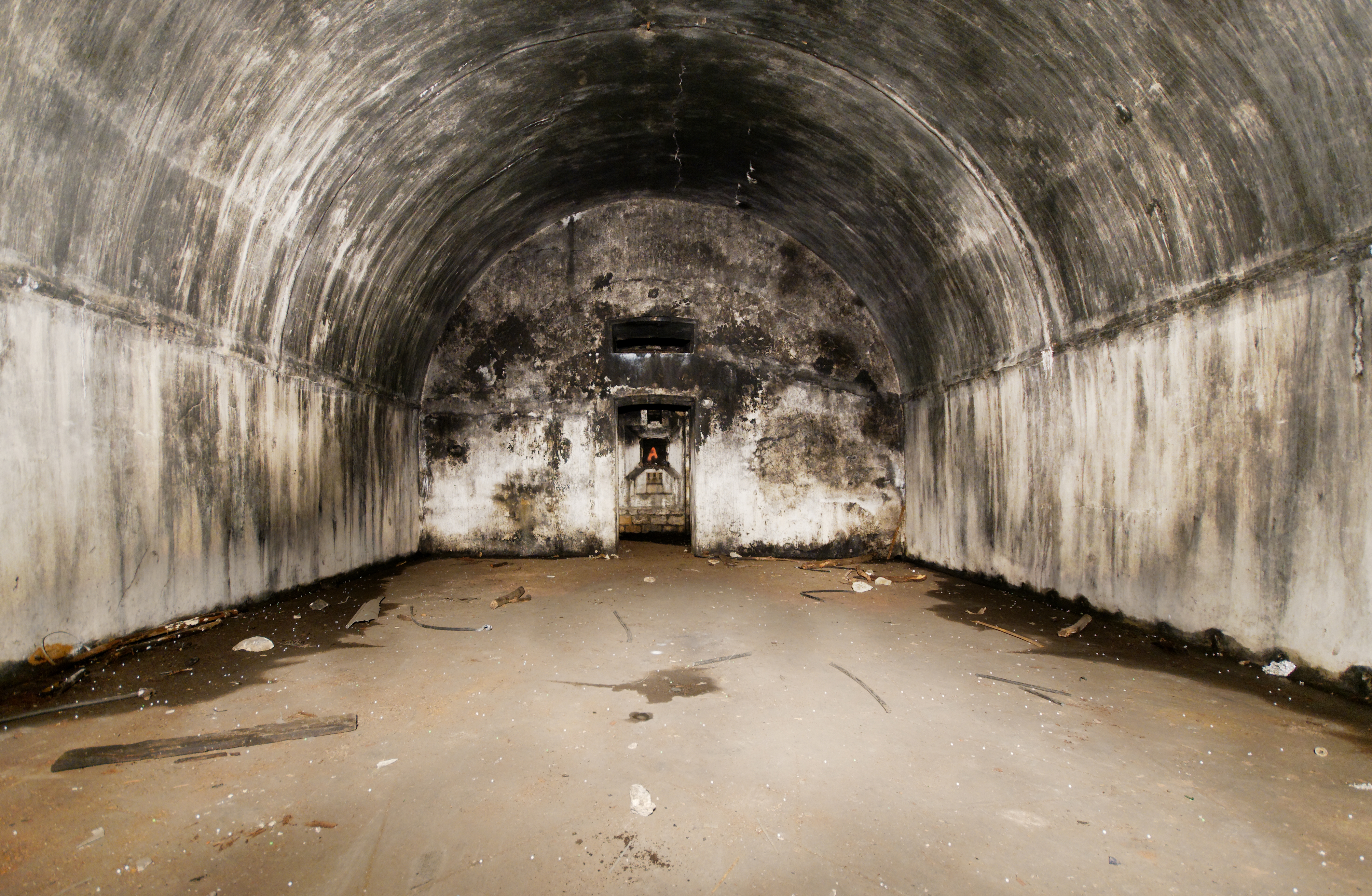 This photograph was taken with a Nikon D300 Magasin de secteur du Bosmont : le grand magasin à poudre (lightpainting).